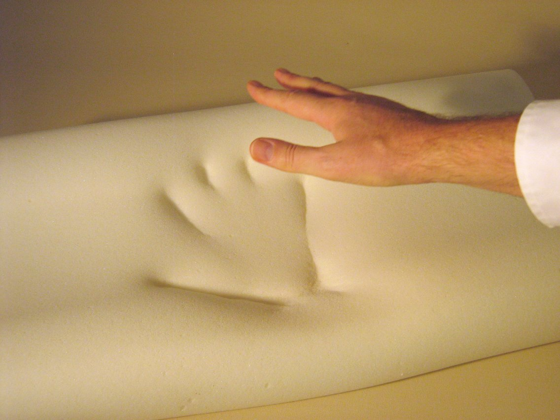 Memory foam. The picture is taken by pressing my hand in the foam and releasing it.